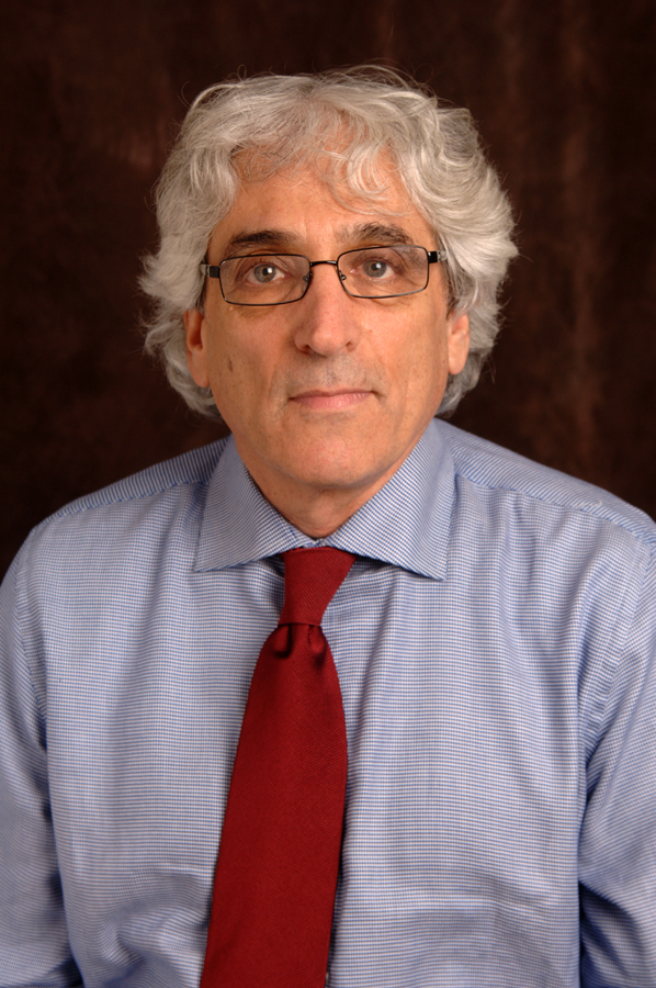 Yuval Neria's picture